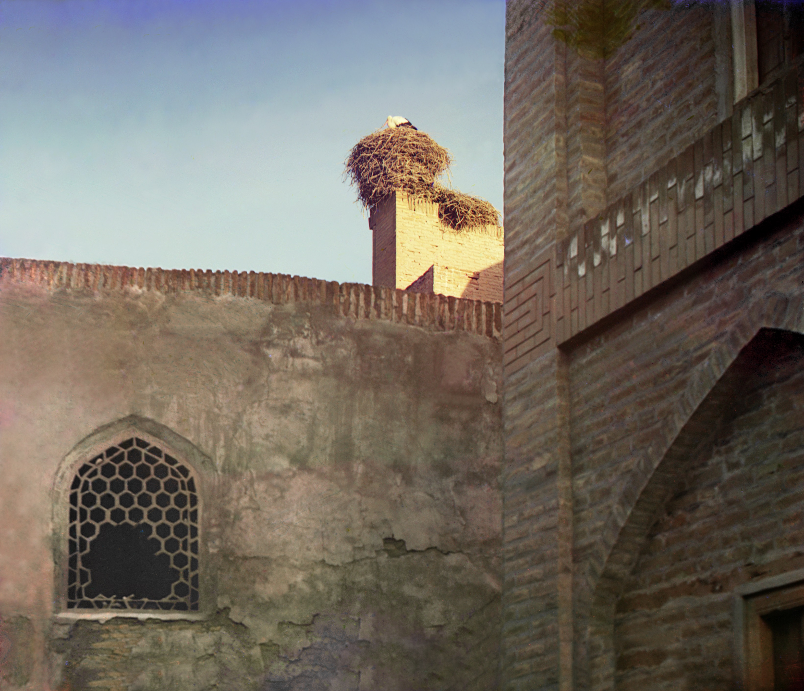 Early color photograph from Russia, created by Sergei Mikhailovich Prokudin-Gorskii as part of his work to document the Russian Empire from 1909 to 1915. Study of a Stork's Nest at the top of a palace wall in Bukhara.